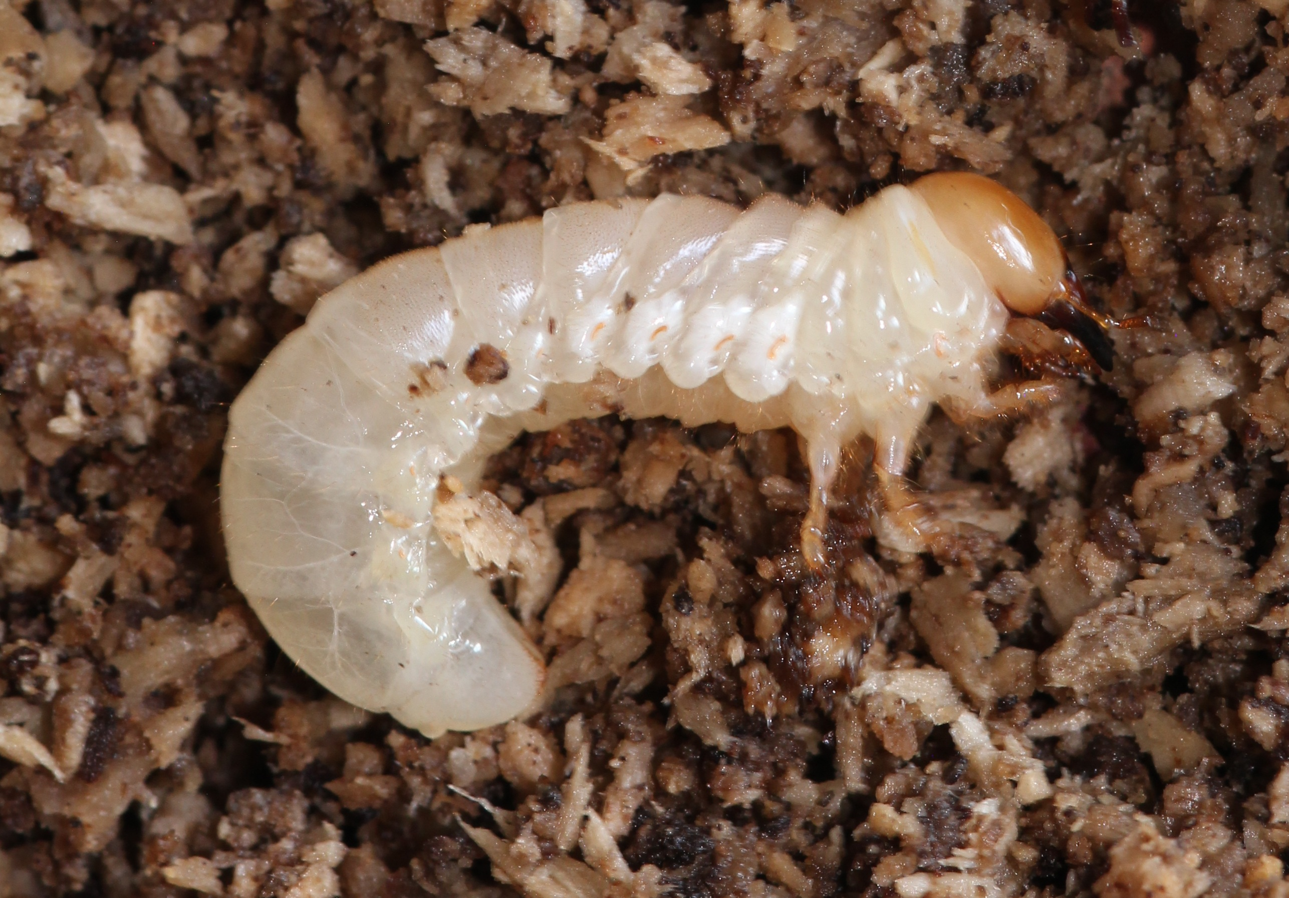 Lesser stage beetle third instar larva. This larva is in "winter tolerance mode". Some time ago stopped feeding, purged its gut contents and replaced them with an overwintering fluid in order to avoid freezing. Note how transparent it is.